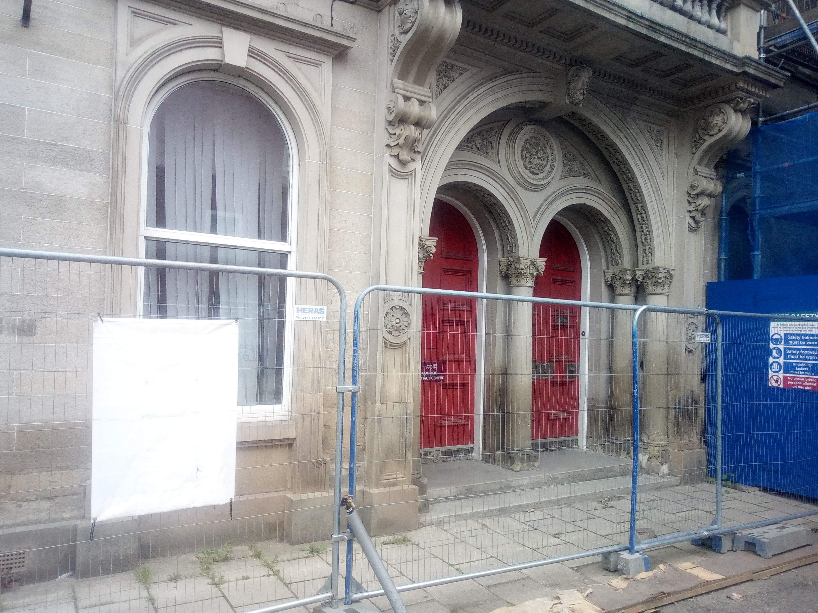 Jedburgh, 3 - 5 Exchange Street, Commercial Bank Of Scotland Wikidata has entry Q17567943 with data related to this item.